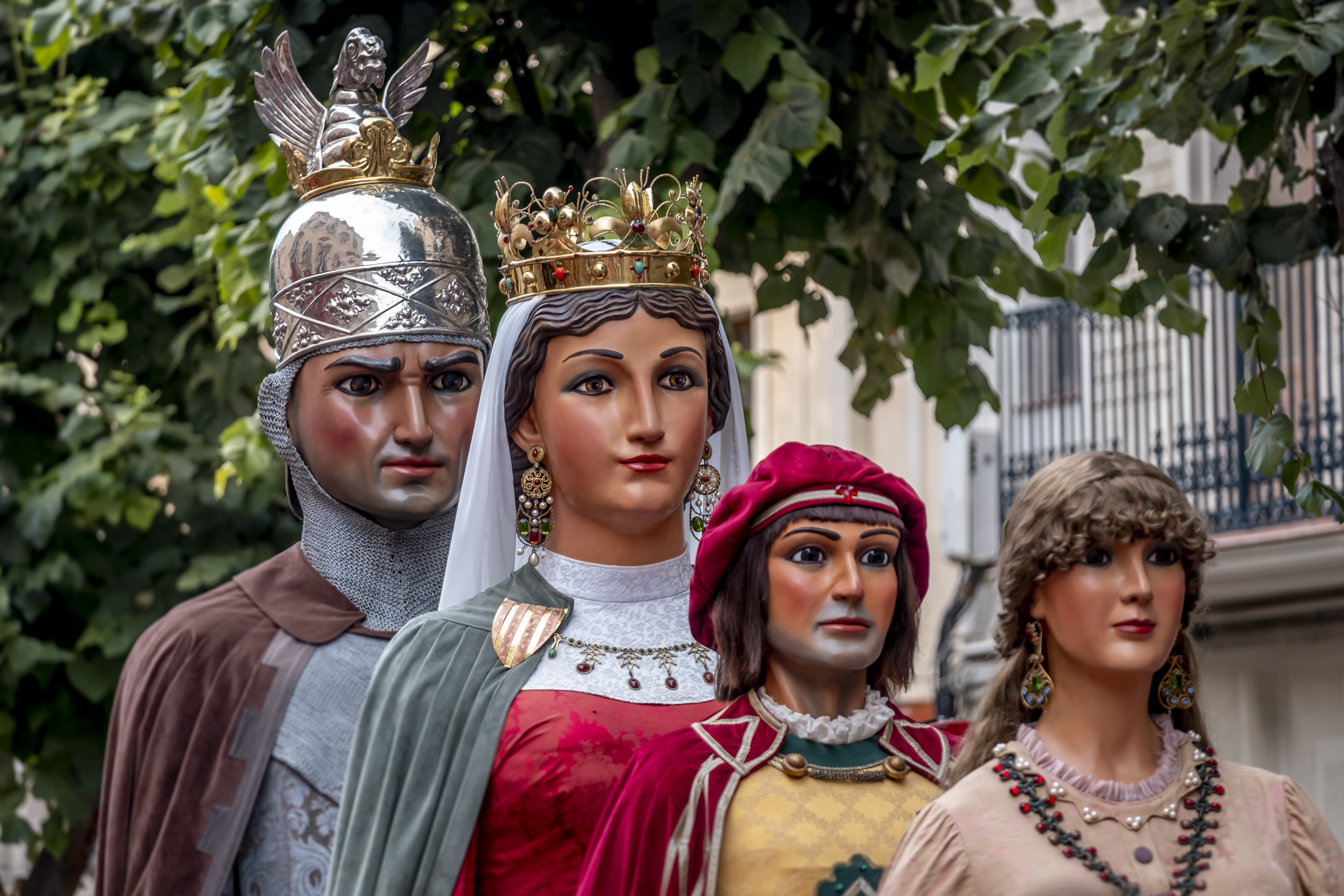 This is a photography of a Folklore festival in Spain (Wikidata id Q12874).